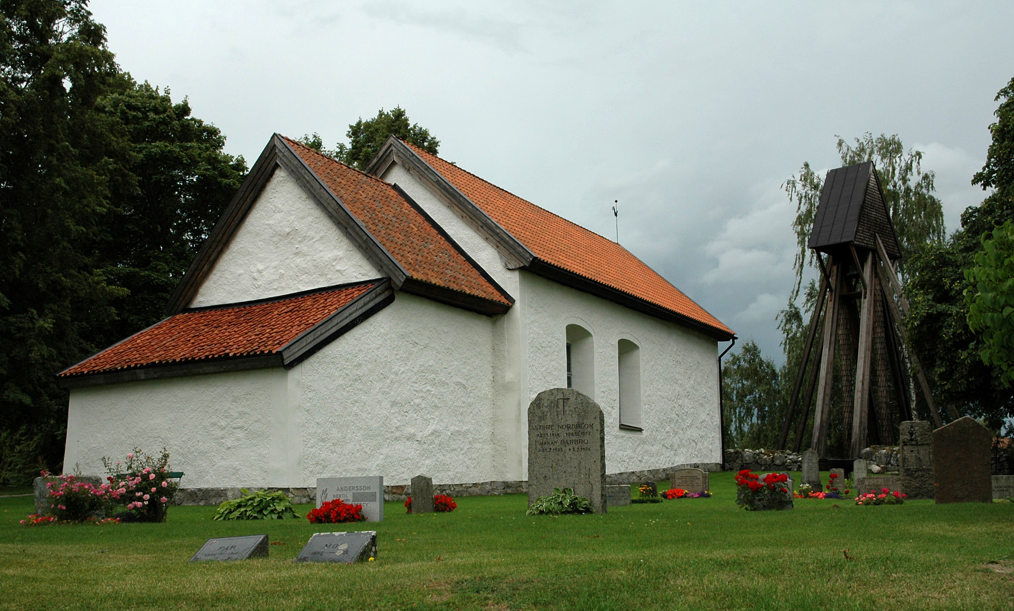 Halla church in Nyköping